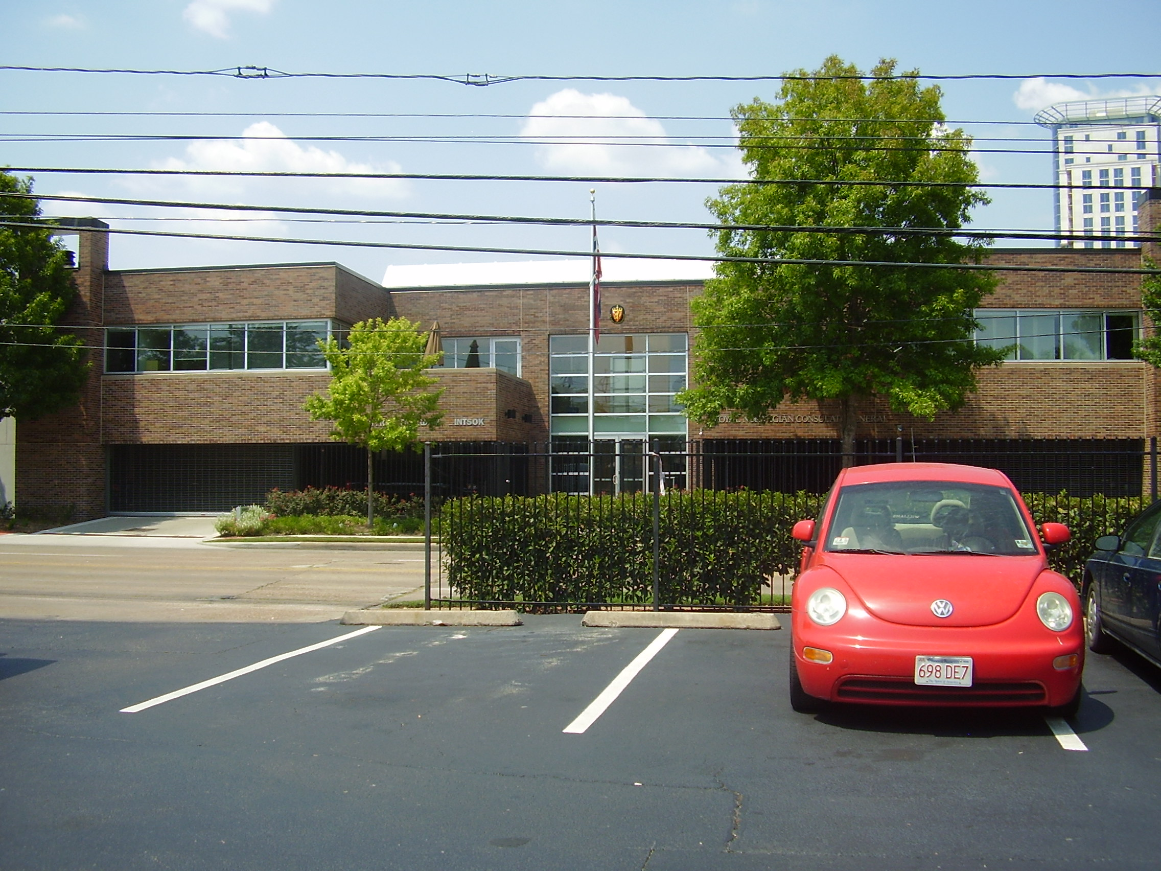 Norway House, which houses the Norwegian Consulate General, Houston